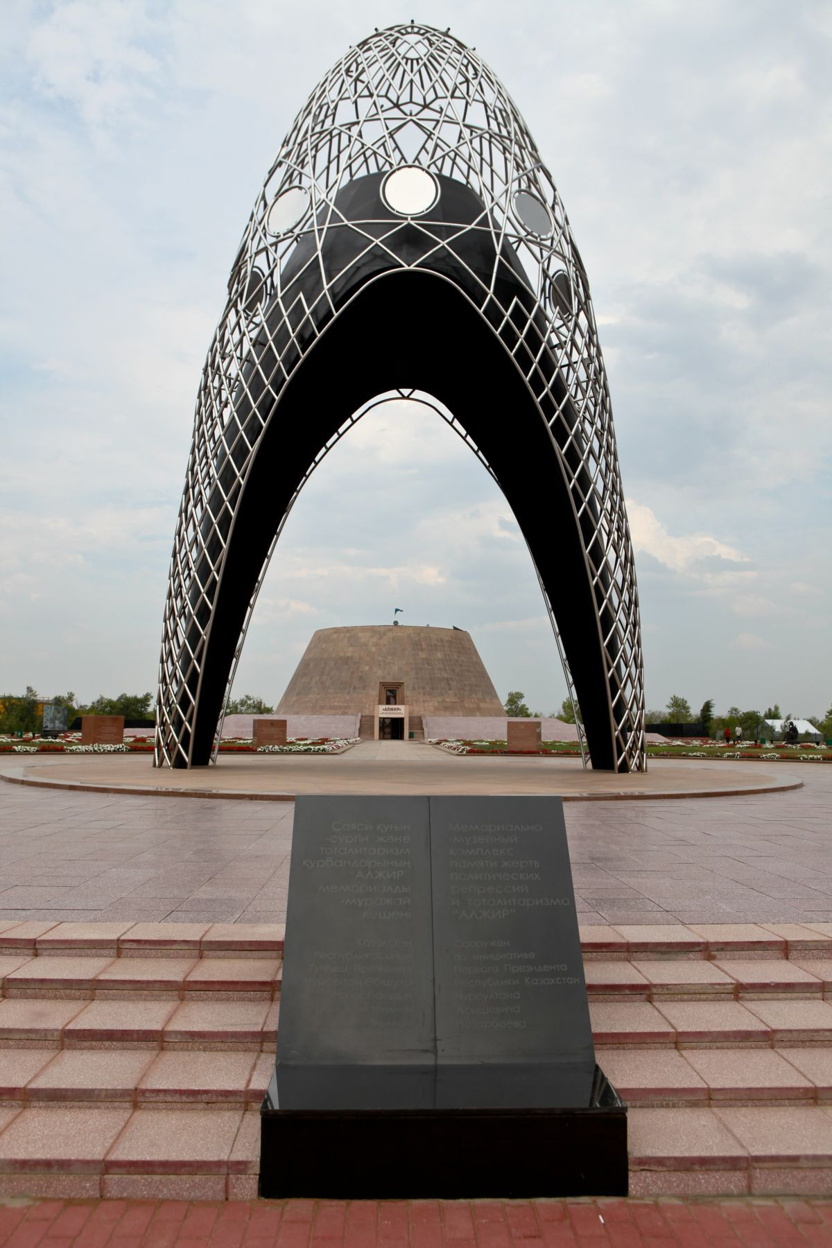 Monument to the victims of the Akmola Labour Camp for Wives of Political Dissidents during Soviet times, Astana, Kazakhstan